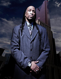 Photo of producer Reggaeton Producer Michael Ellis